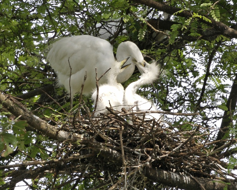 Adult and two chicks Great Egret Ardea alba ssp Ardea alba modesta (Clements 5th. and 6th. Ed.) Ardea modesta (Split?) Location: Tamarind tree, beside a main road, Semarang, Central Java, Indonesia. Large colony secure within the perimeter of the base of a unit of the armed forces. 23rd. March 2008 690V2891